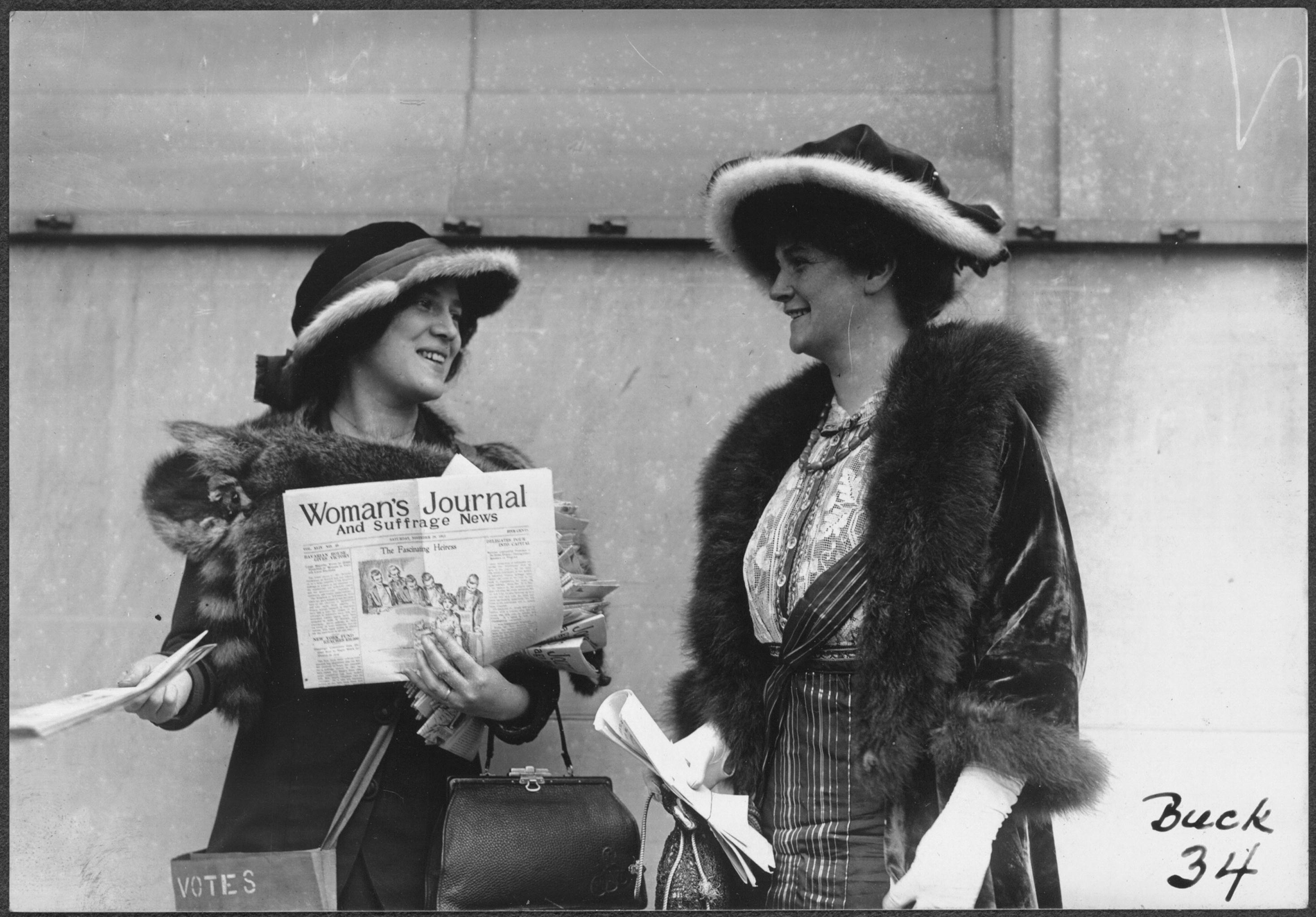 Photograph of Margaret Foley (right?) and an unidentified woman (left), both carrying pocketbooks and wearing fur-trimmed hats and fur stoles, standing outside and distributing copies of the November 29, 1913, issue of the Woman's Journal and Suffrage News. The woman on the left has a cloth satchel strapped across her body, labeled VOTES.